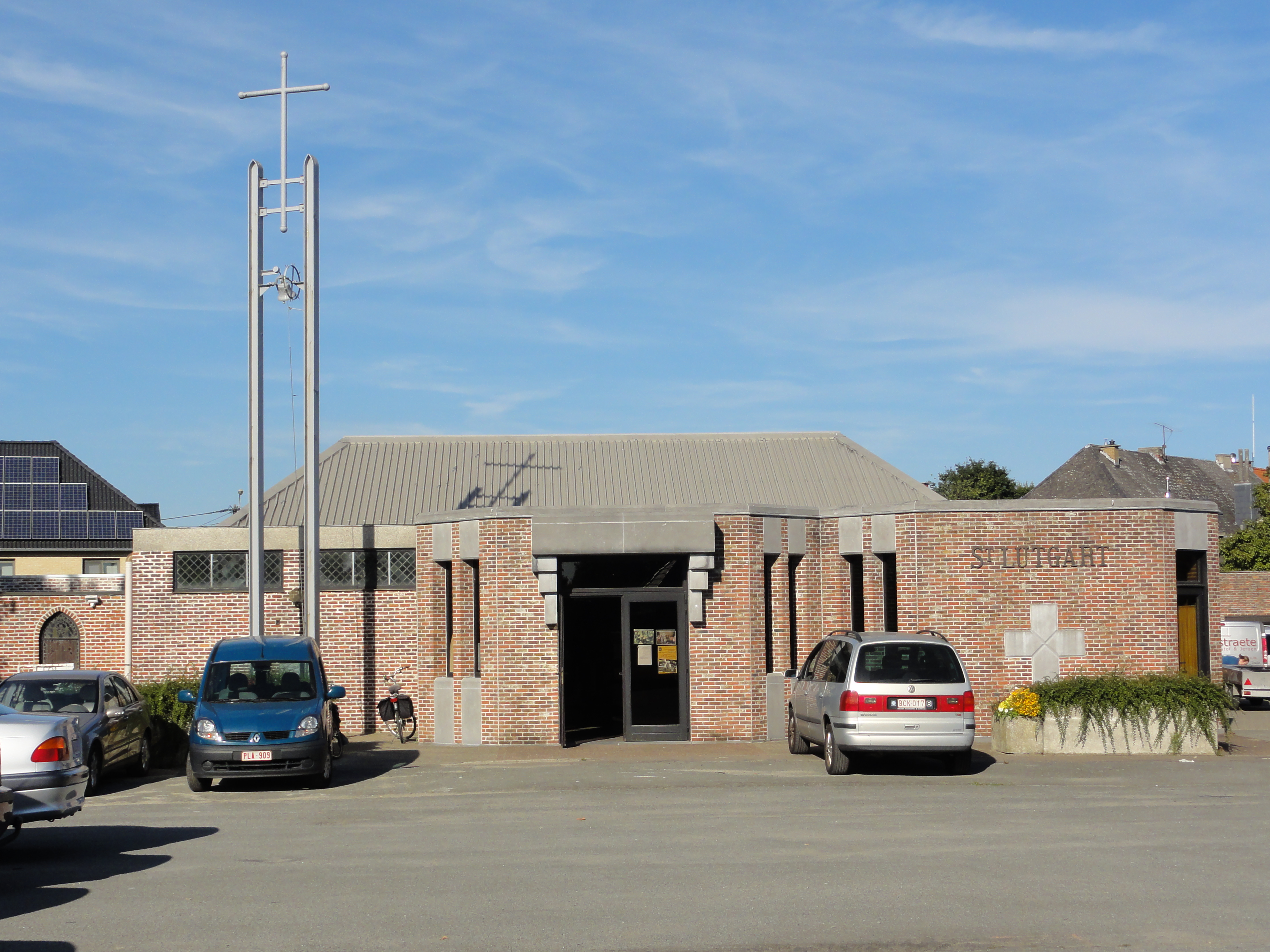 Sint-Lutgardiskerk (Church of Saint Lutgardis) in the quarter Lutterzele in Sint-Gillis-bij-Dendermonde. Sint-Gillis-bij-Dendermonde, Dendermonde, East Flanders, Belgium.